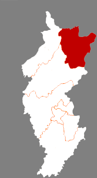 Location of Huinan county in Tonghua City, China